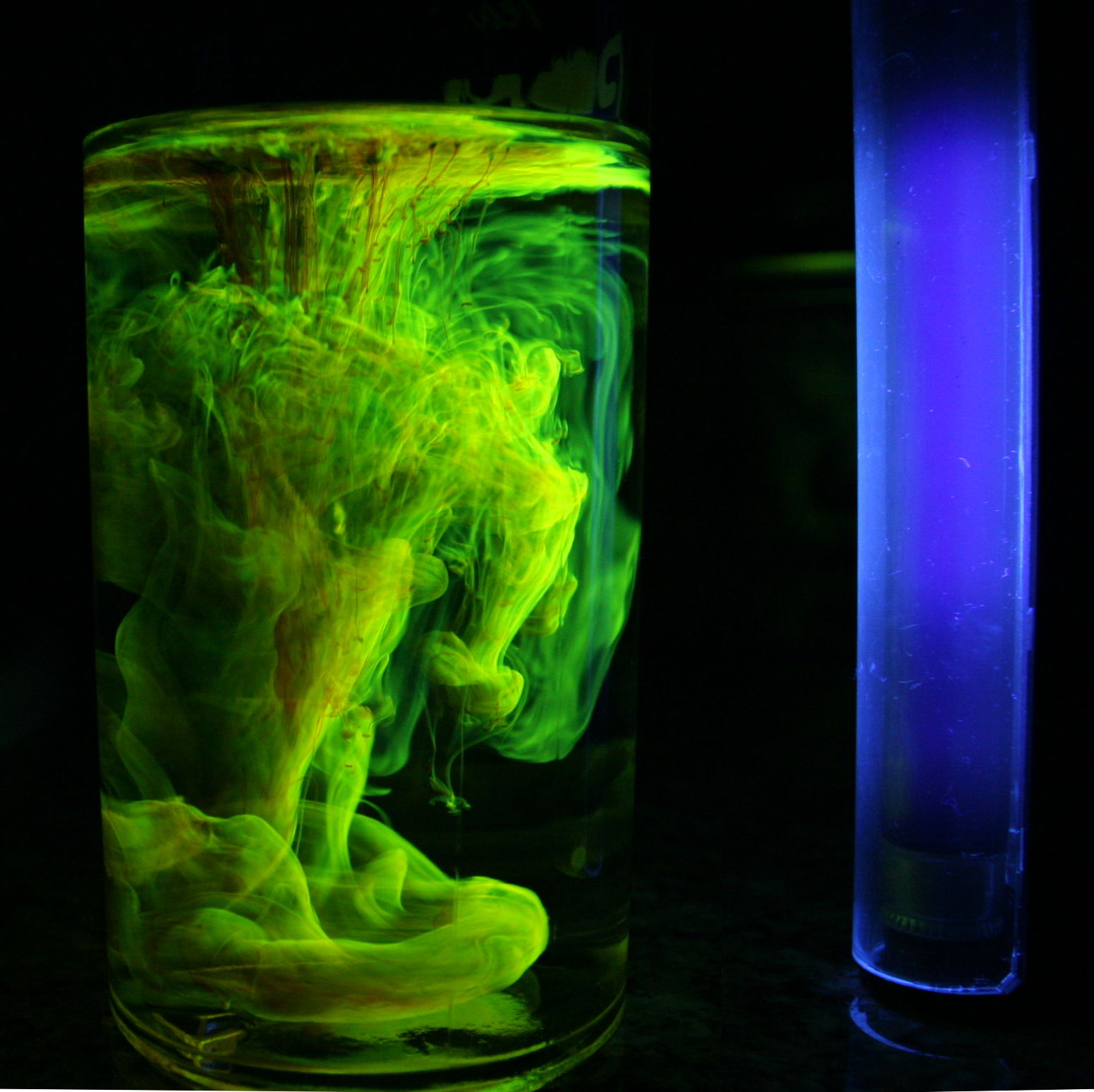 Florescein powder dropped into a solution of tapwater under typical blacklight. Approx 15 seconds elapsed.